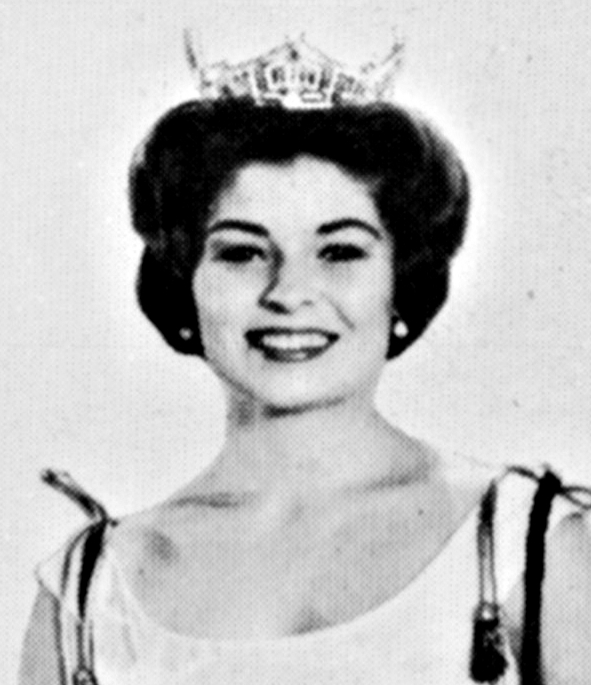 1964 Oldsmobile Starfire with Miss America Donna Axum